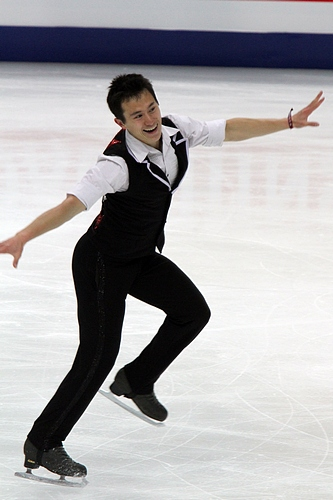 Patrick Chan at the 2011 ISU World Figure Skating Championships in Moscow